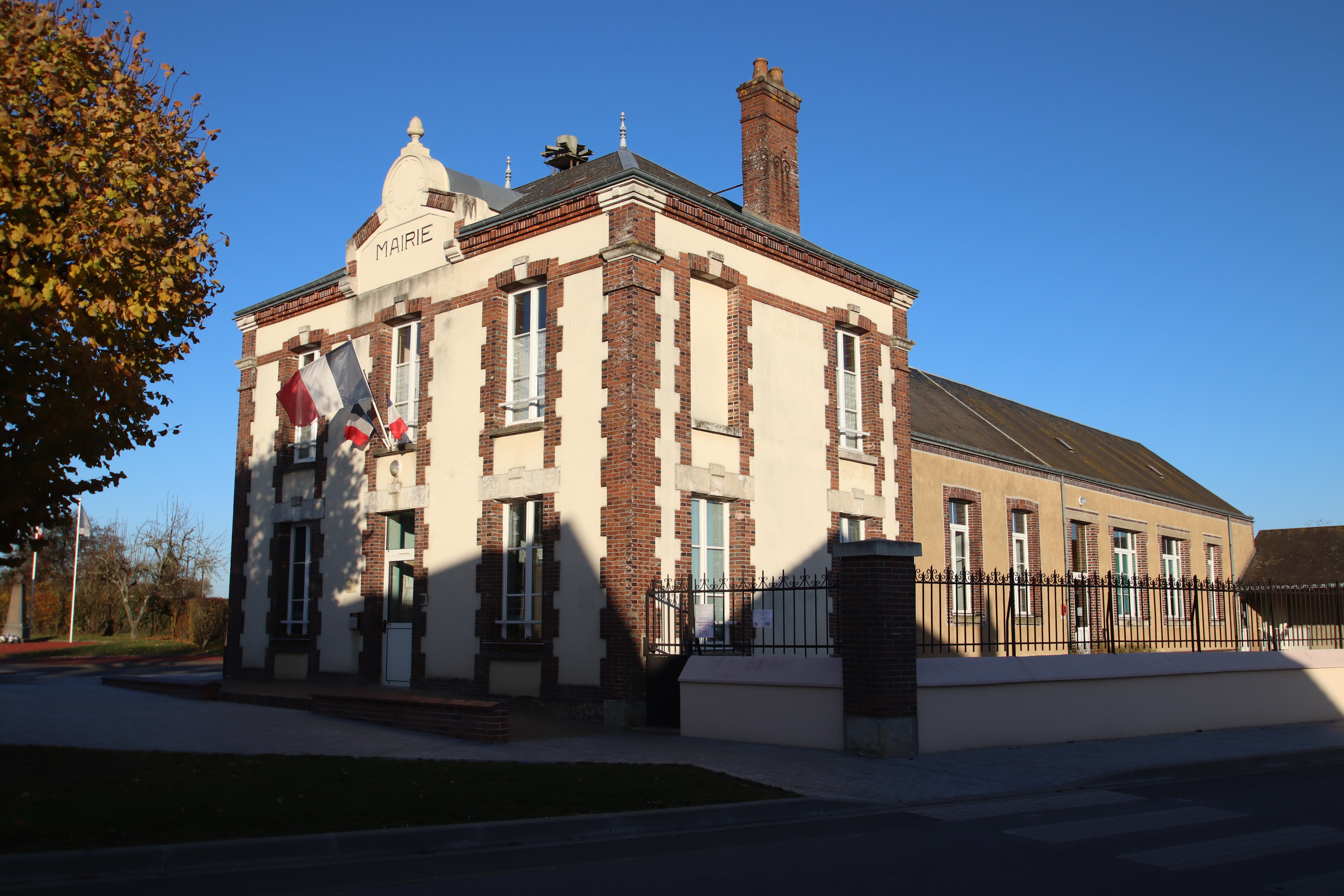 Town hall of Chapelle-Royale, France. Object location48° 08′ 36.64″ N, 1° 03′ 13.25″ E